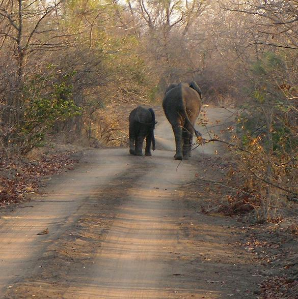 Elephants in Liwonde National Park, Malawi.